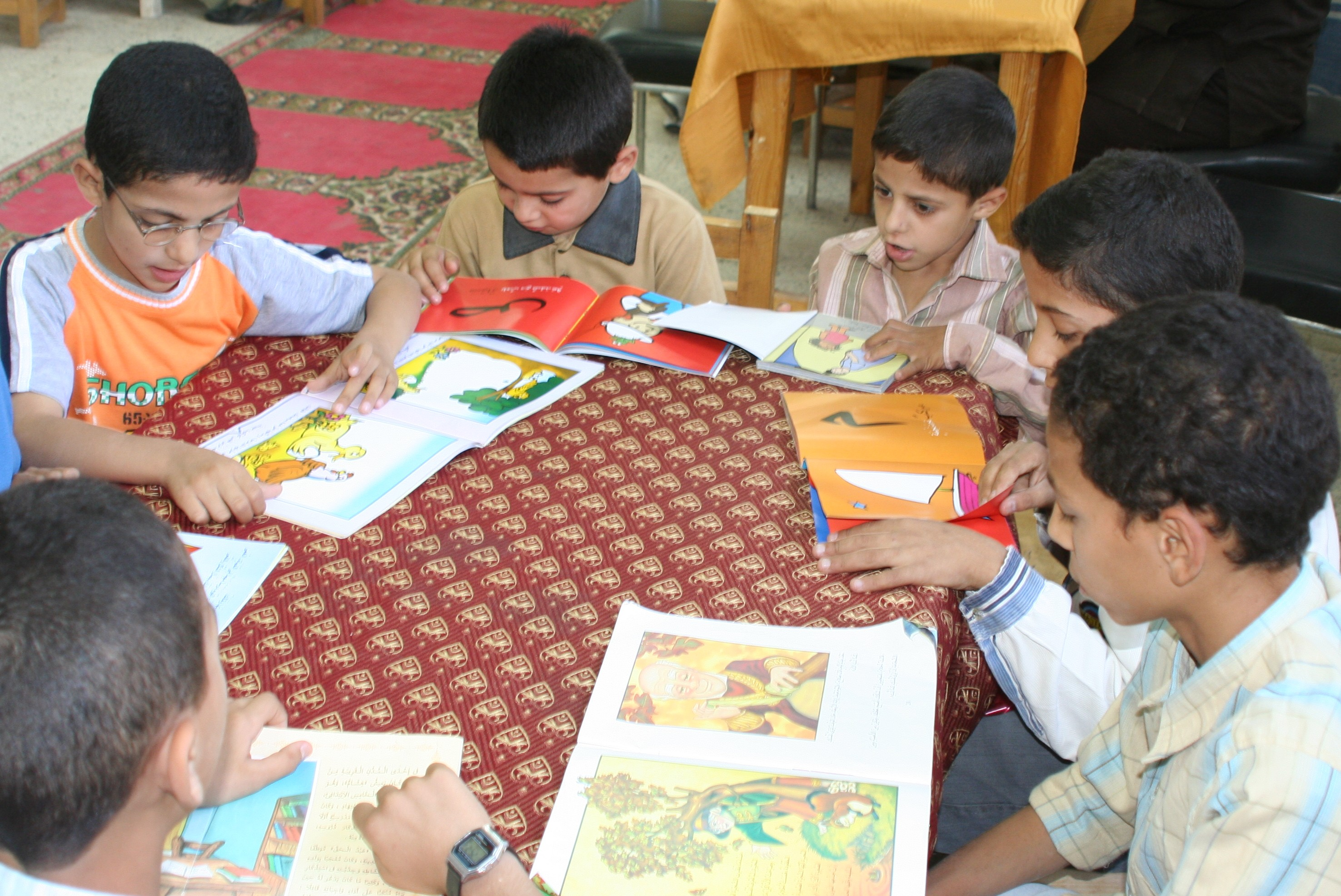 Egyptian boys reading